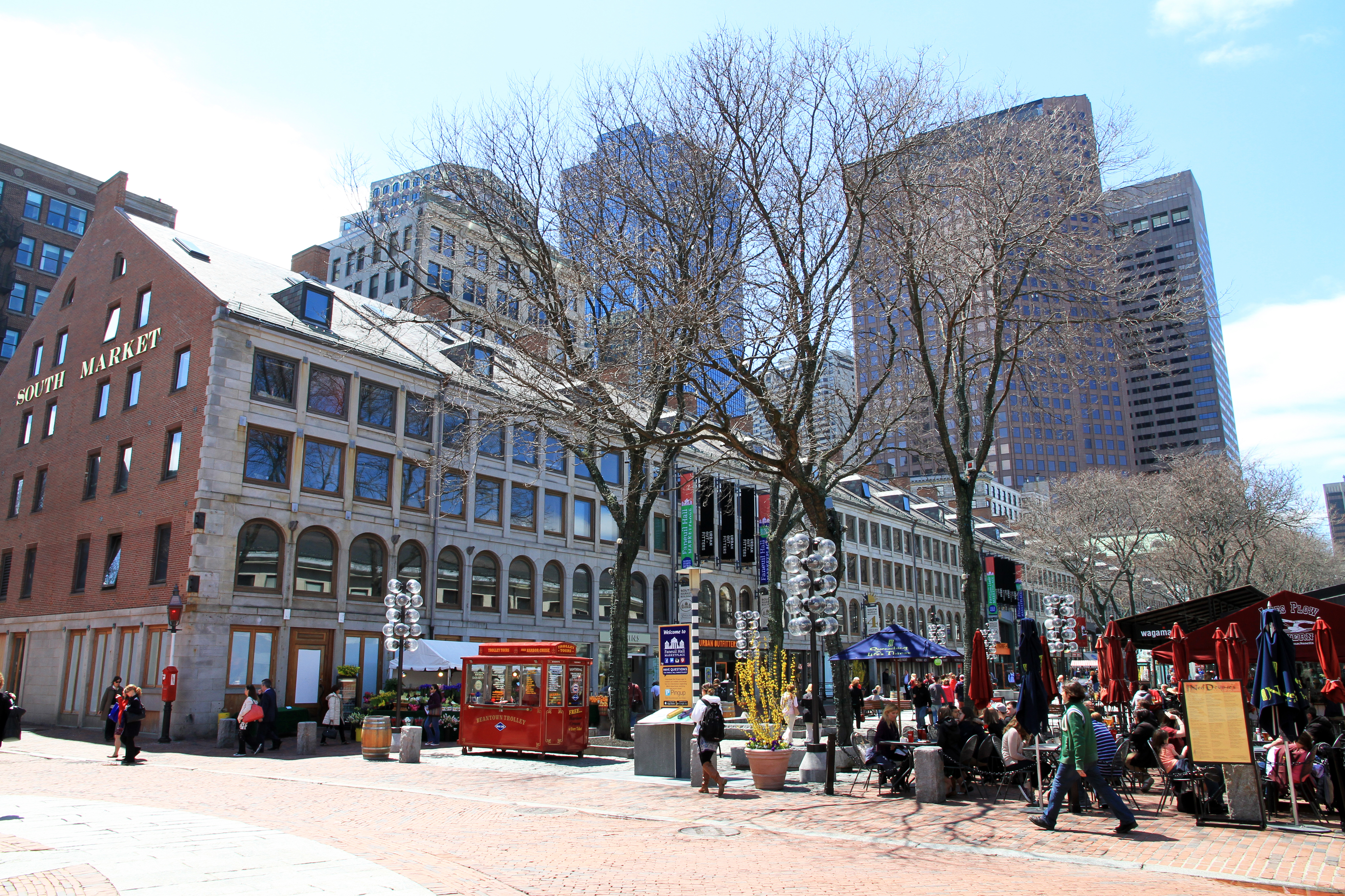 South Market